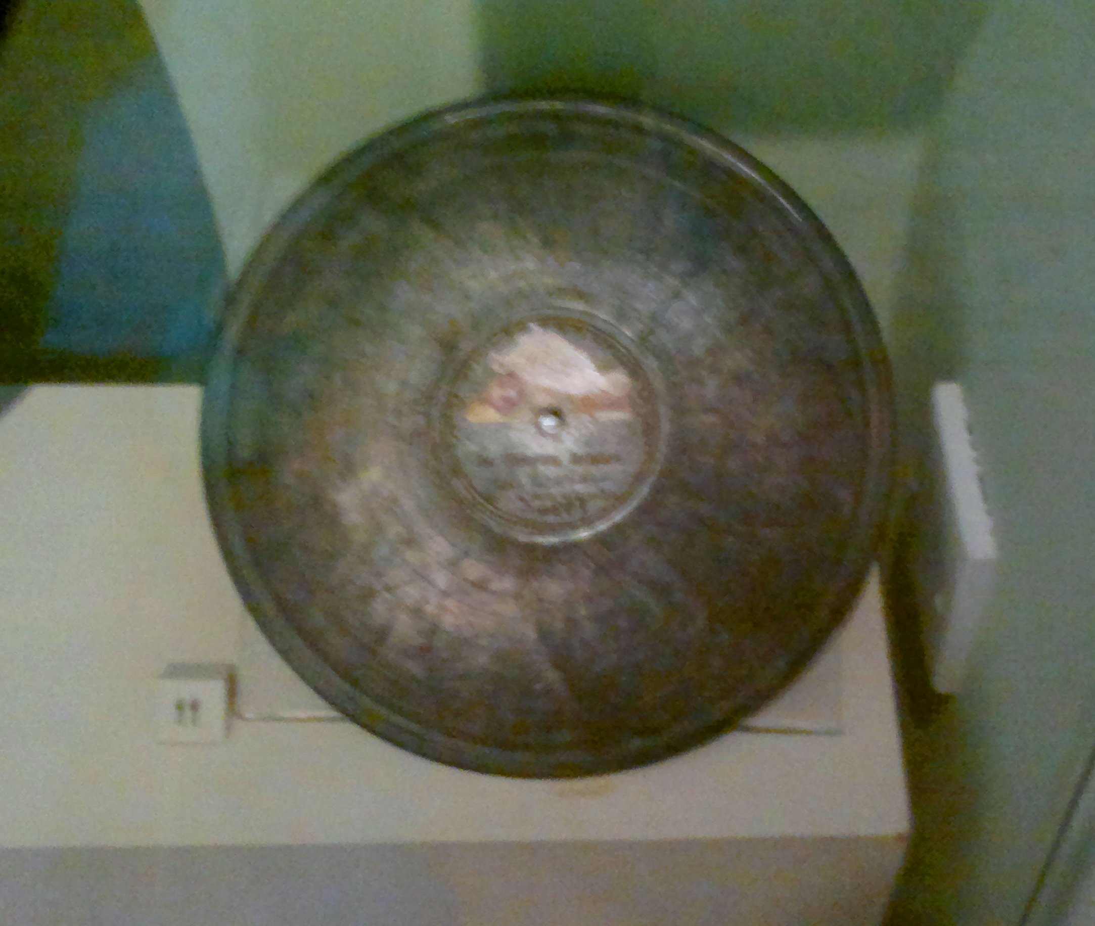 Record, Chahargah performed by Islam Abdullayev. Museum of History of Azerbaijan.